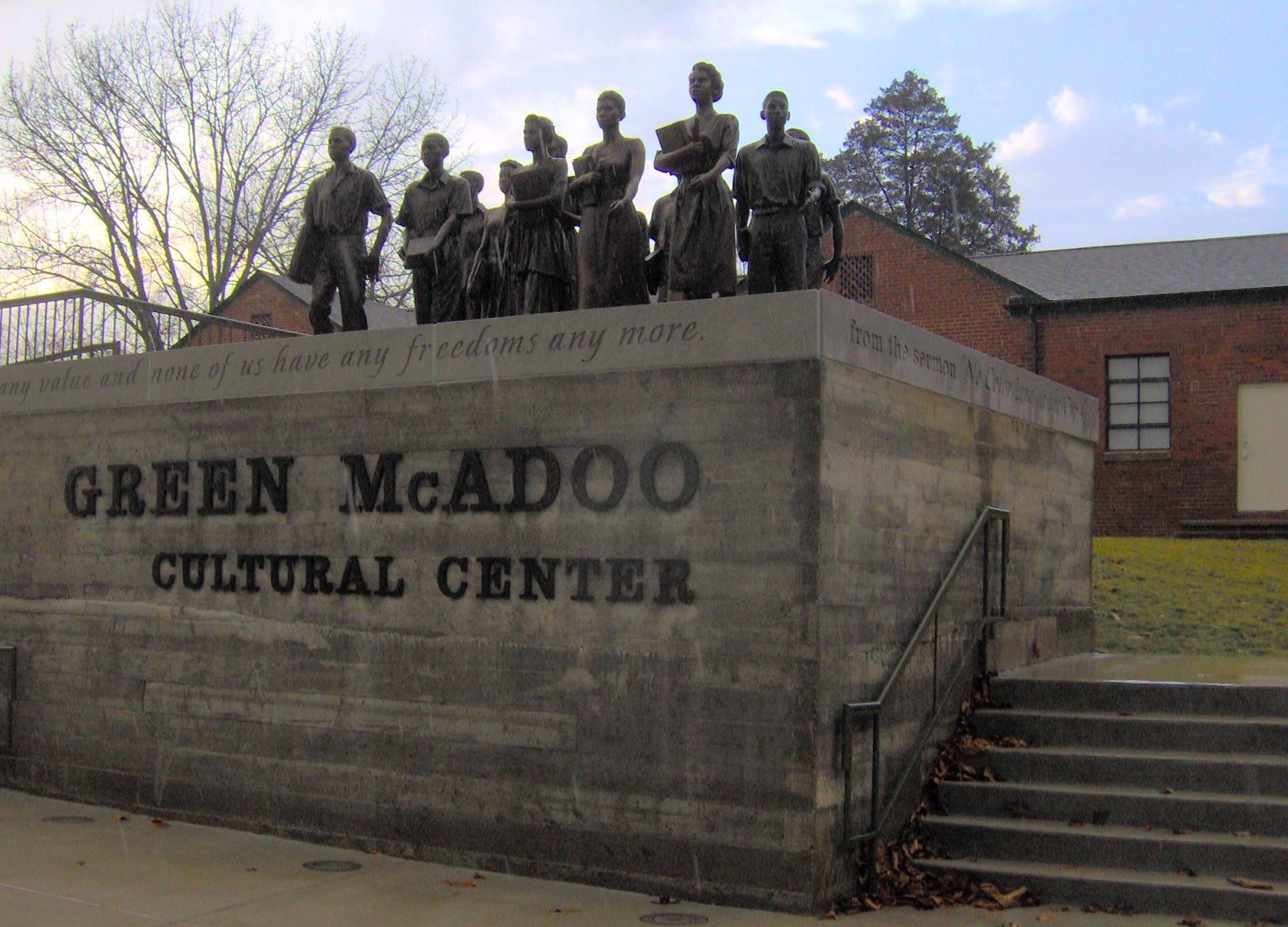 Life-size bronze statues of the Clinton Twelve in front of the former Green McAdoo School, now the Green McAdoo Cultural Center, in Clinton, Tennessee, USA.